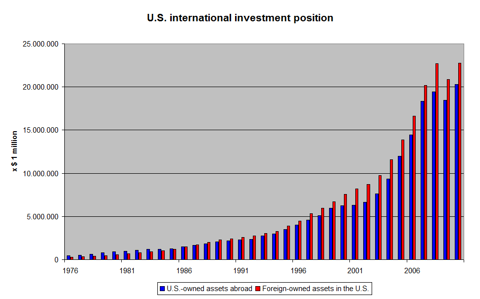 Development of investment position of the US in all other countries and vice versa. Source: bron